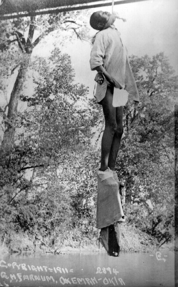 Lynching of Lawrence Nelson, Okemah, Oklahoma. Gelatin